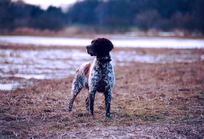 Small Munsterlander "Rickie"